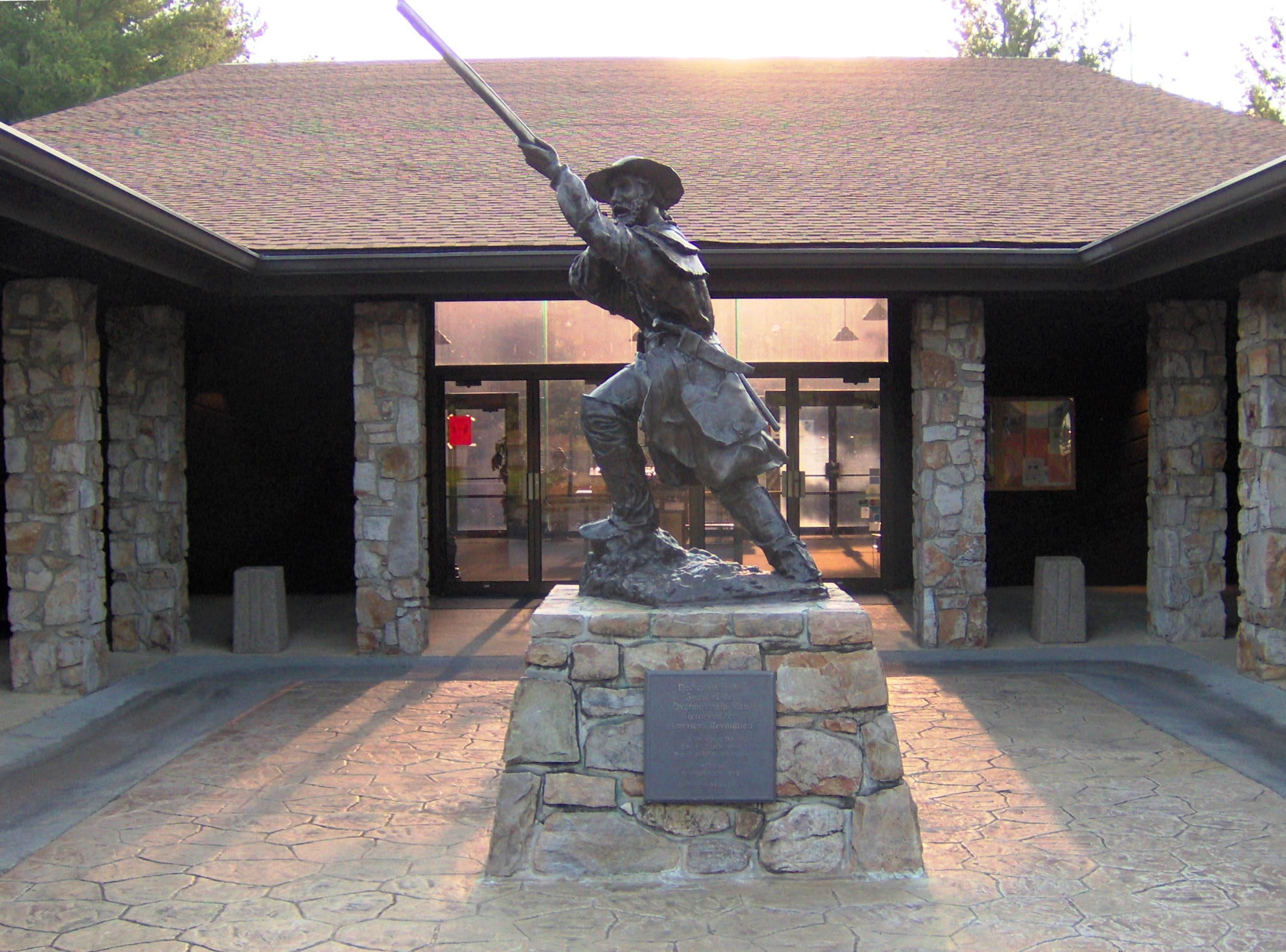 Statue at the entrance to the Sycamore Shoals State Park visitor center in Elizabethton, Tennessee, USA, commemorating the site as the mustering grounds for the so-called "Overmountain Men," the frontier militia that helped defeat British loyalists at the Battle of Kings Mountain during the American Revolution. The plaque at the base of the statue reads: Dedicated to the Spirit of the Overmountain Men Heroes of the American Revolution A Project of the City of Elizabethton Bicentennial Commission Dedicated September 25, 1999 Artist: Jon Mark Estep